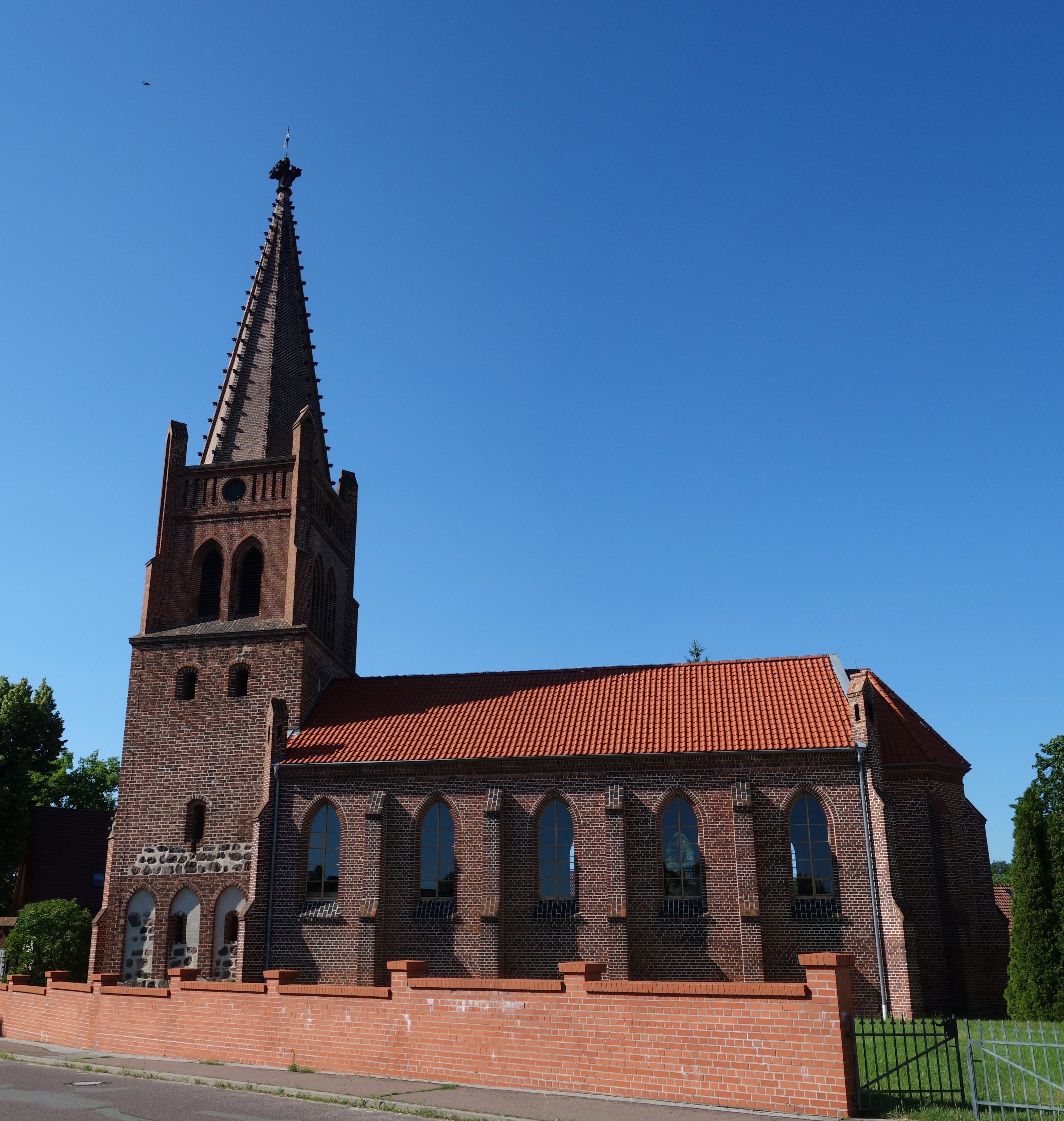 Southern view of church in Wust, Brandenburg an der Havel municipality, Brandenburg state, Germany